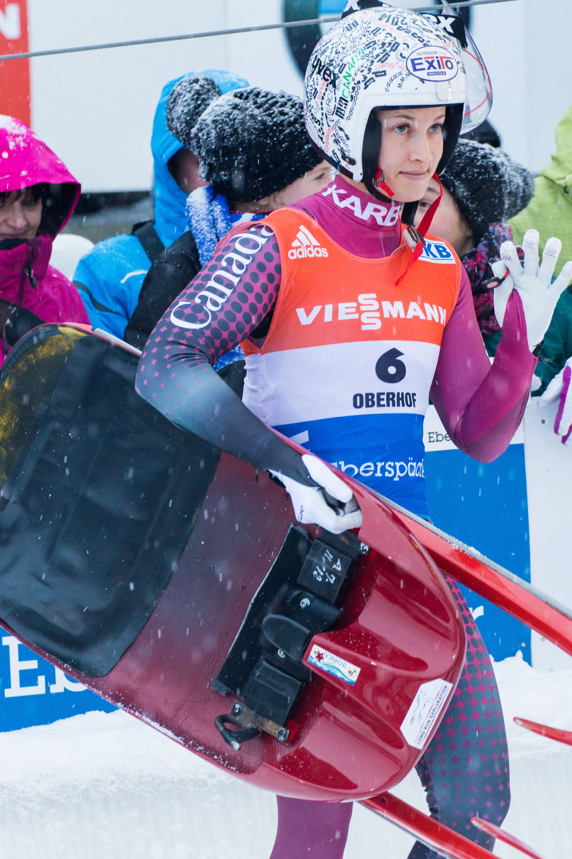 Luge world cup Oberhof 2016-01-16